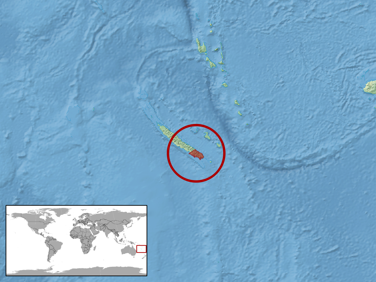 geographic distribution of Nannoscincus mariei